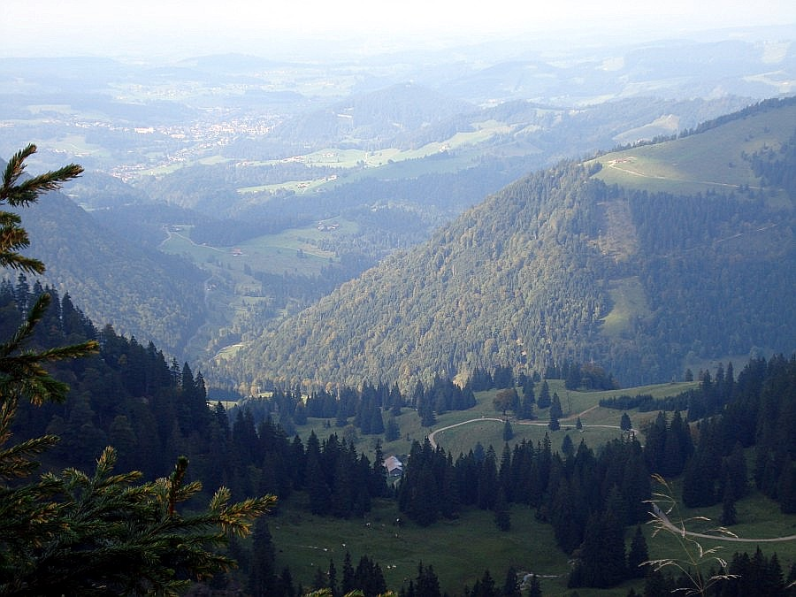 Oberstaufen as seen from the Nagelfluhkette mountains near Mt. Hochgrat, Allgäu/Allgaeu, Bavaria, Germany